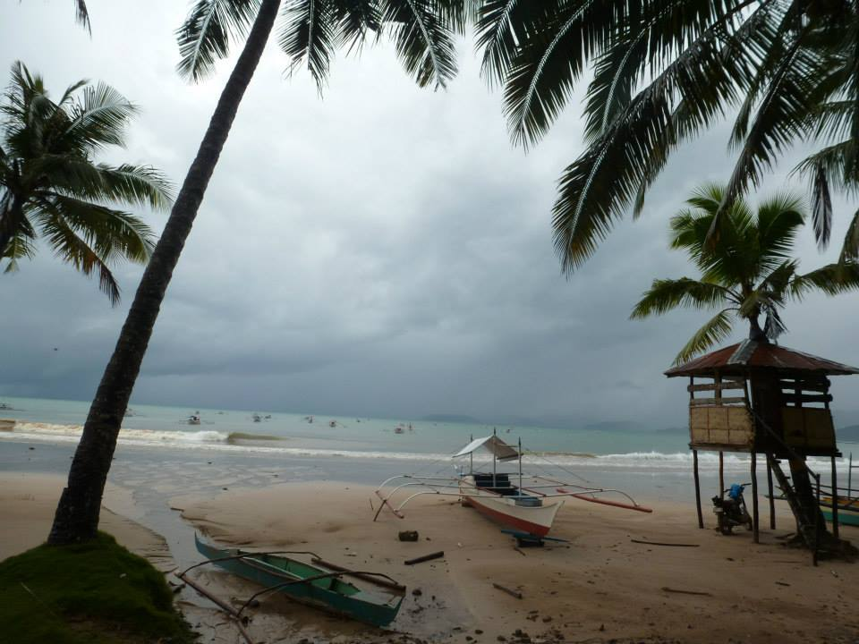 Sabang Beach